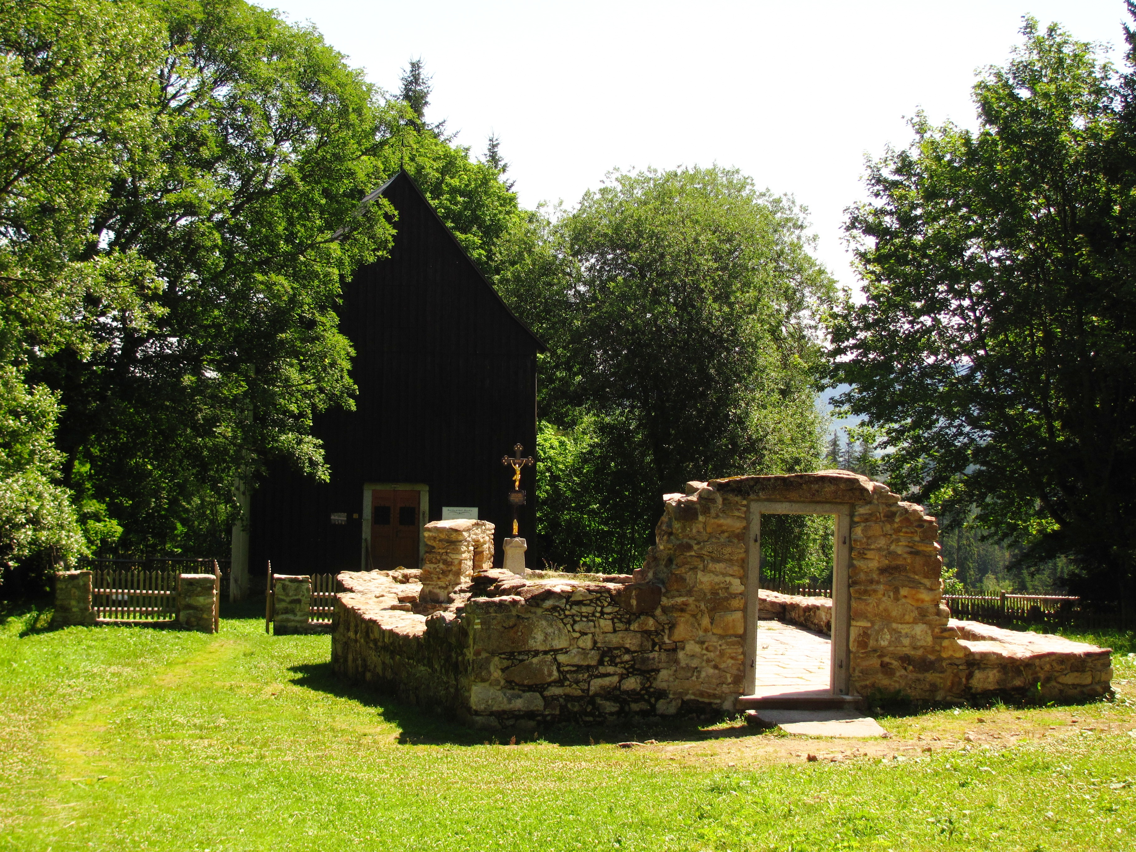 Remains of the original church (in front) and the recently built new church at the place of Hůrka (Hurkenthal), former settlement called also Česká Huť, 990 m a.s.l., approx. 10 km from Železná Ruda, Šumava, Czech Rep.